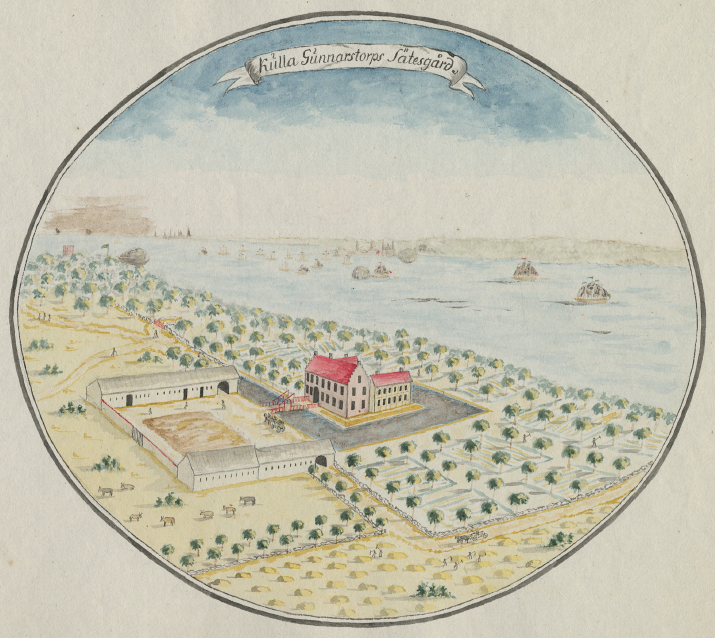 Kulla Gunnarstorp Castle (Scania, Sweden) circa 1780